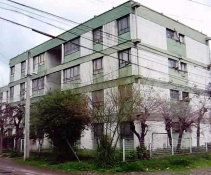 Building from Villa Mexico, Cerrillos, in Santiago, Chile.